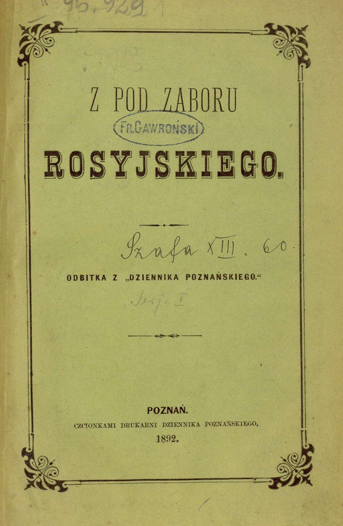 Book cover of "Spod zaboru rosyjskiego" (Poznań, 1892)